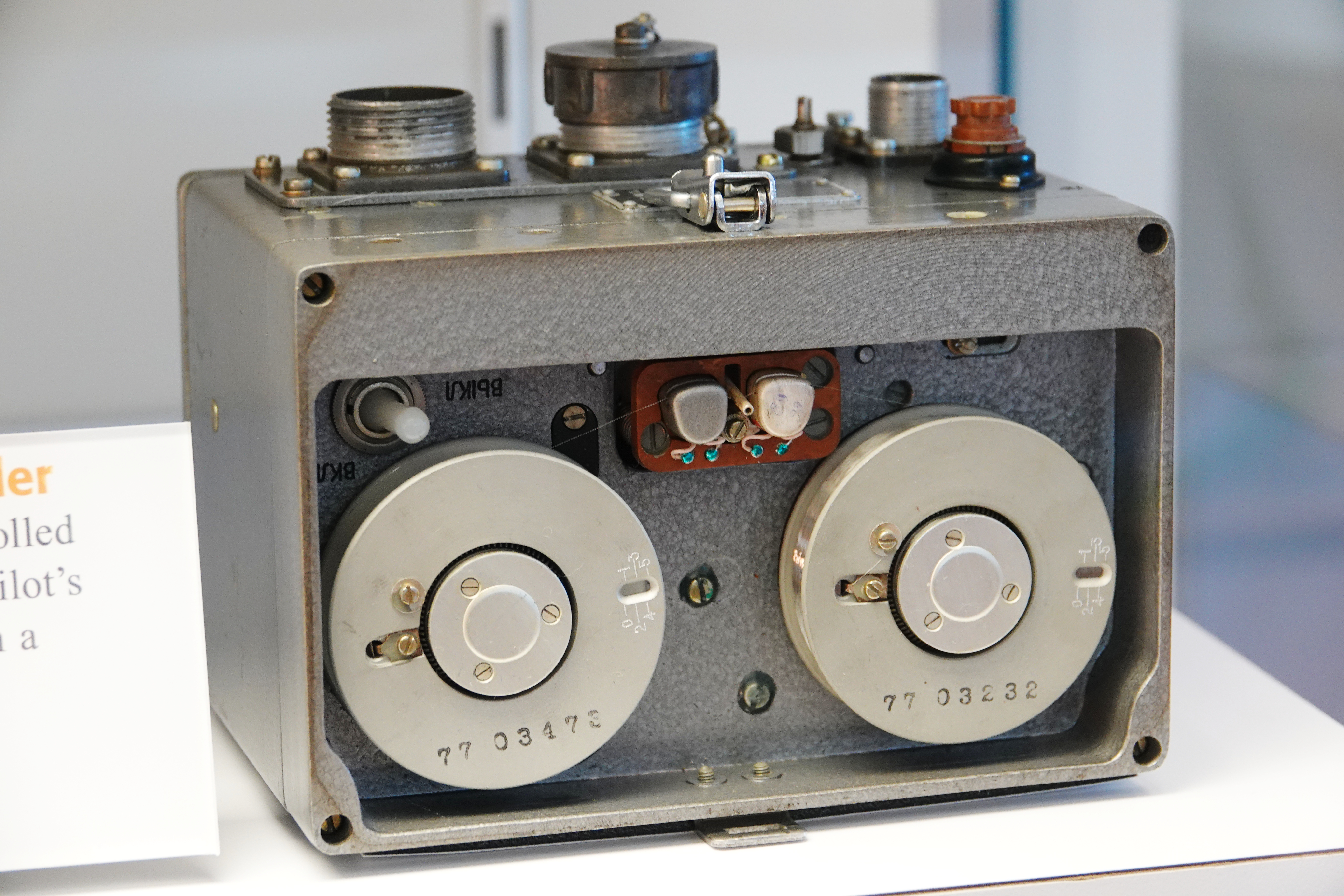 Picture of a Soviet MS-61 Cockpit Voice Recorder. During the Cold War, the Soviet Union controlled its pilots closely, including the recording of pilot’s radio transmissions. This example came from a MiG-21 interceptor. Picture taken at the National Air and Space Museum's Steven F. Udvar-Hazy Center in Chantilly, Virginia, USA.